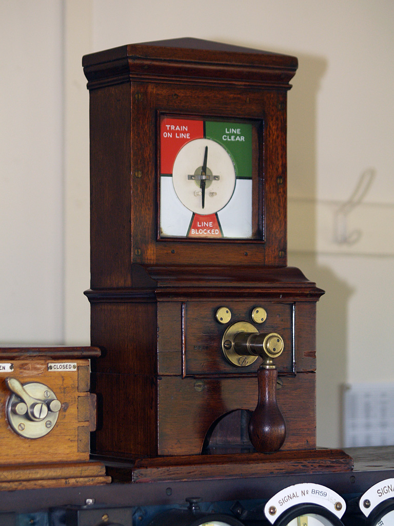 Midland Railway non pegging block instrument on the block shelf in Castleton East Junction signal box. Monday 23rd June 2008